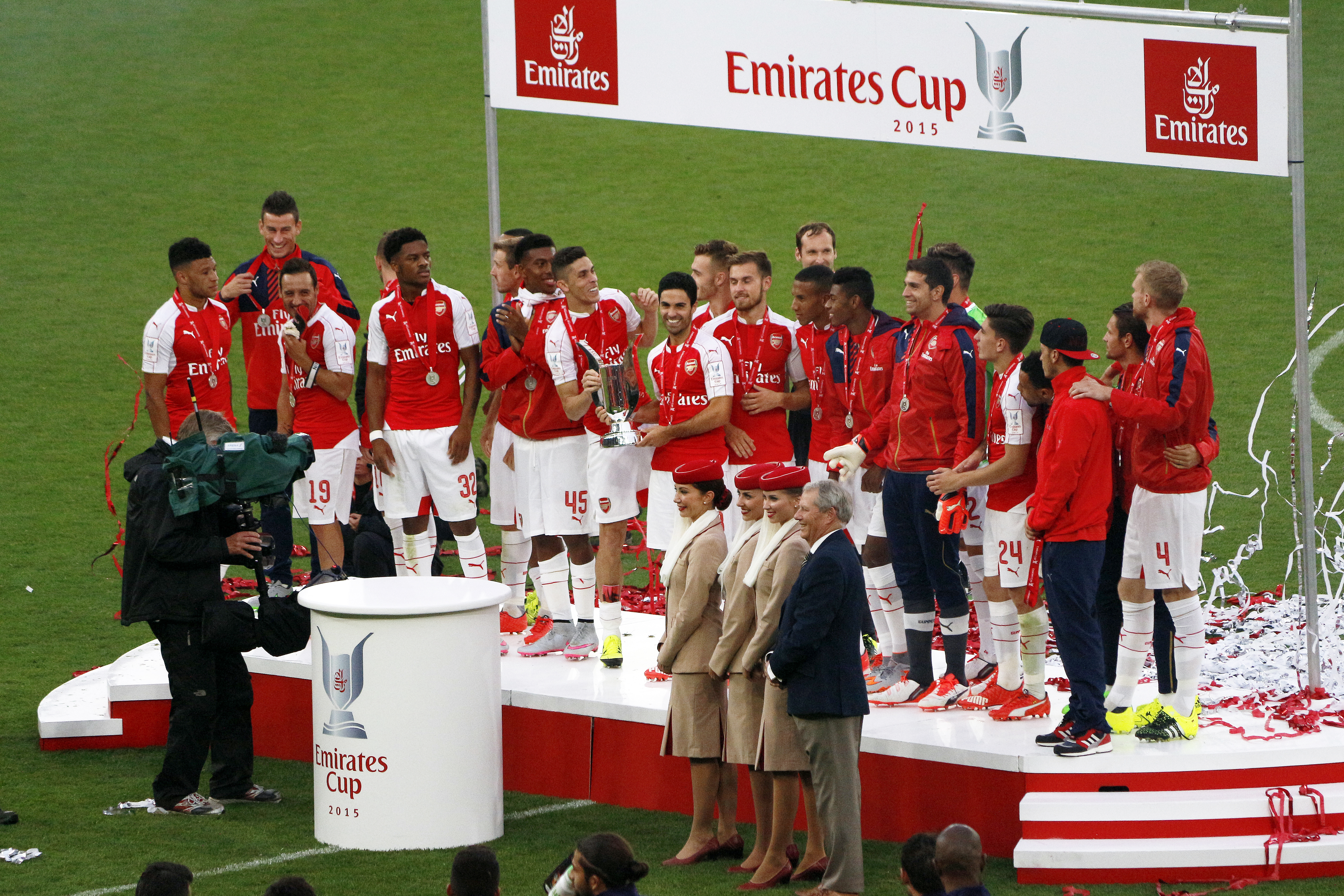 Arsenal celebrating winning the 2015 Emirates Cup.